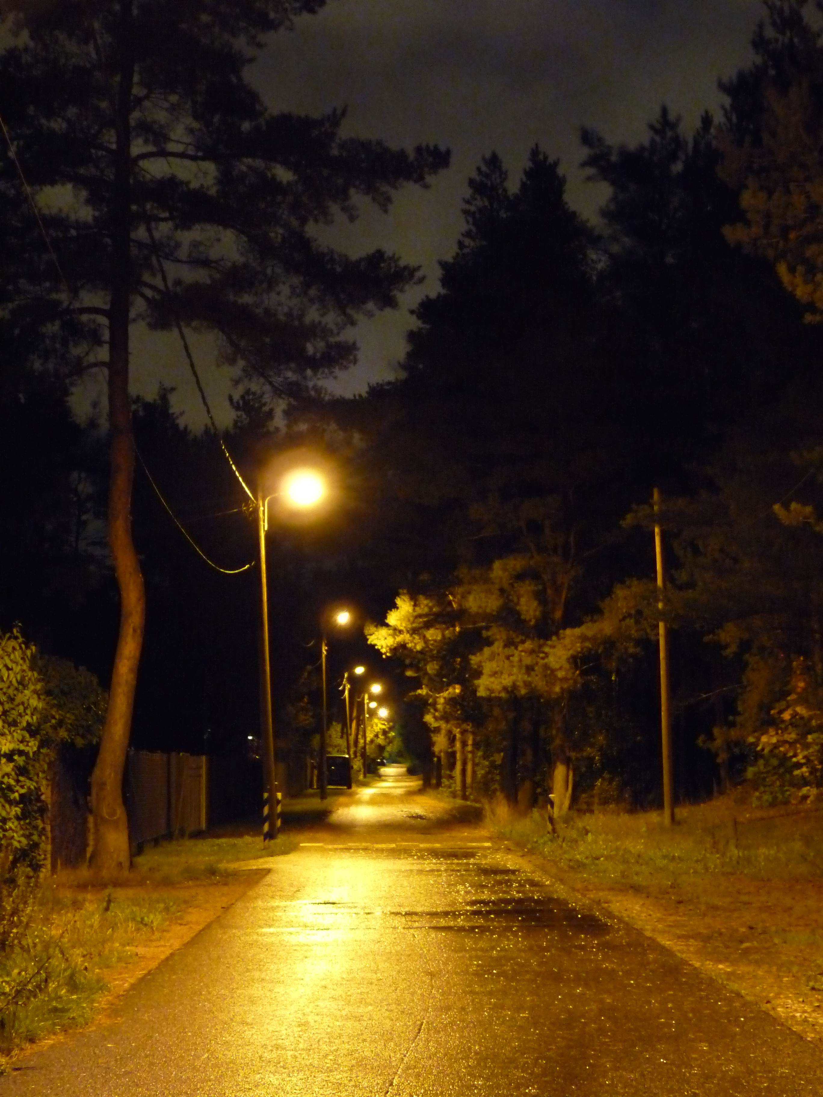 Mahla street in Tallinn, Estonia